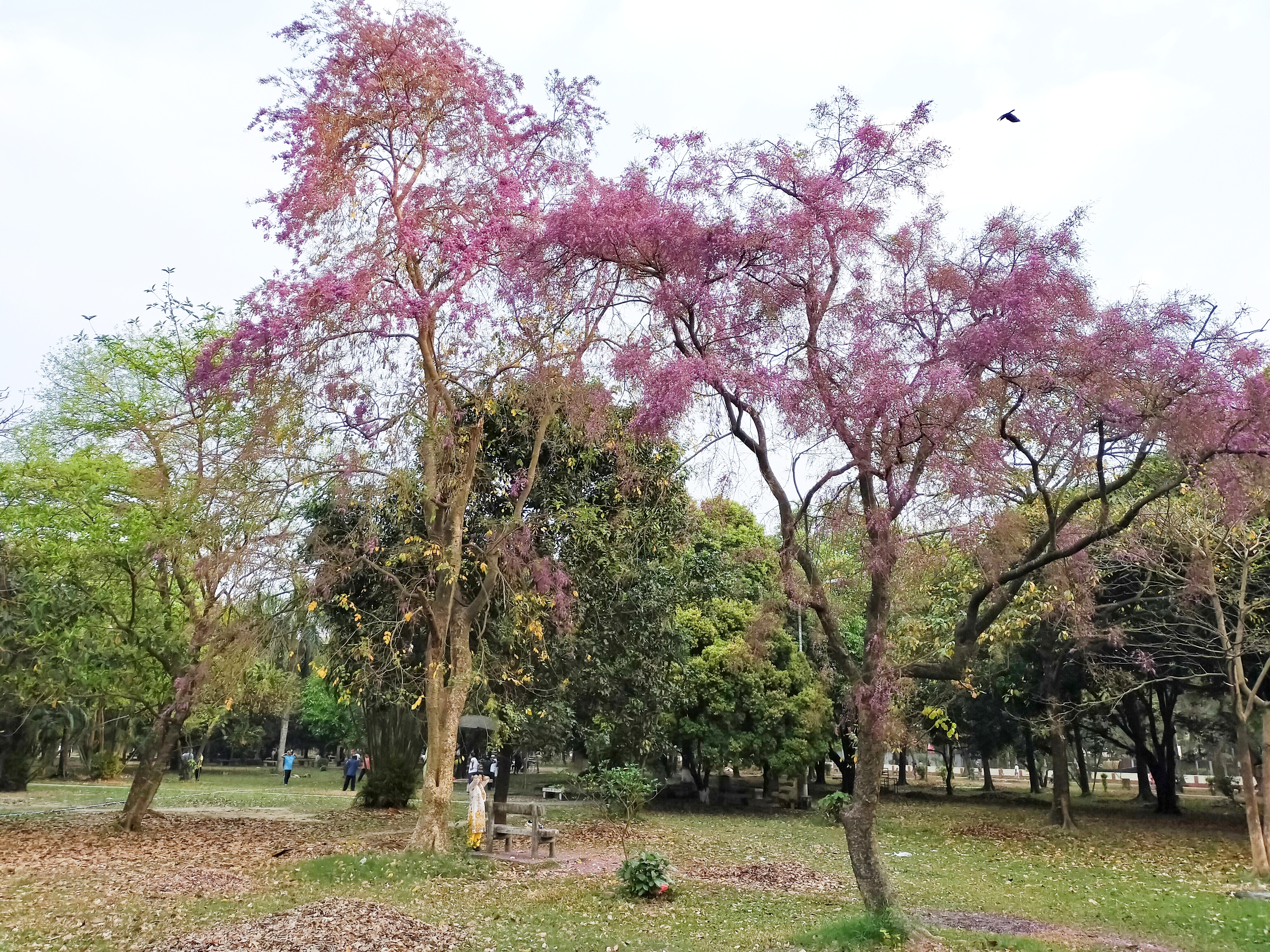 Millettia peguensis, Moulmein rosewood, Bengali :Monimala with pink- purple small flower in march 2020. Ramna Park, Dhaka. (12 March 2020)